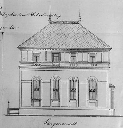 Architect drawing of the first synagogue in Göppingen